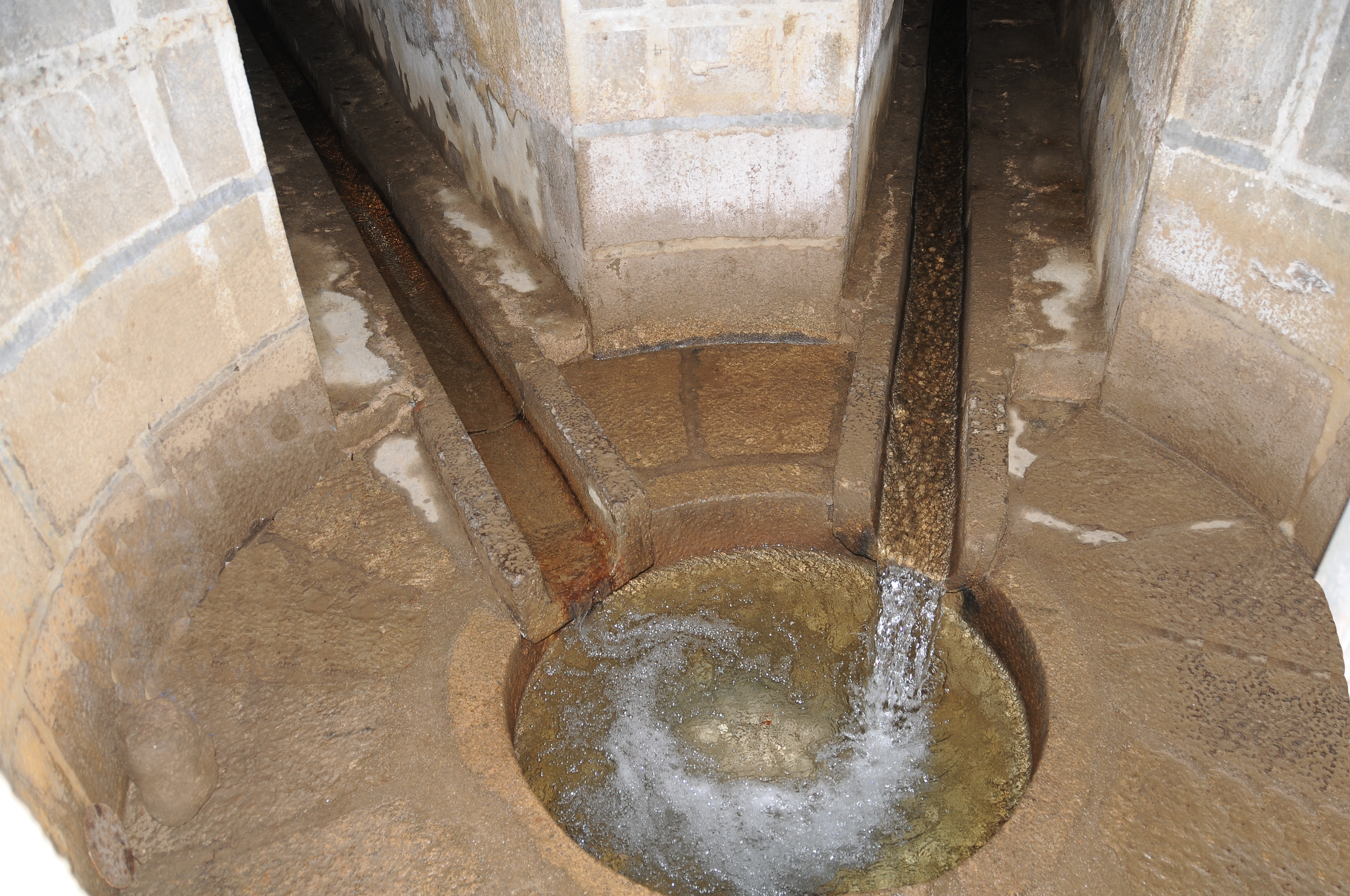 Interior of "Fonte Gémea do Dr. Alvim 2. Sete Fontes, Braga, Portugal.